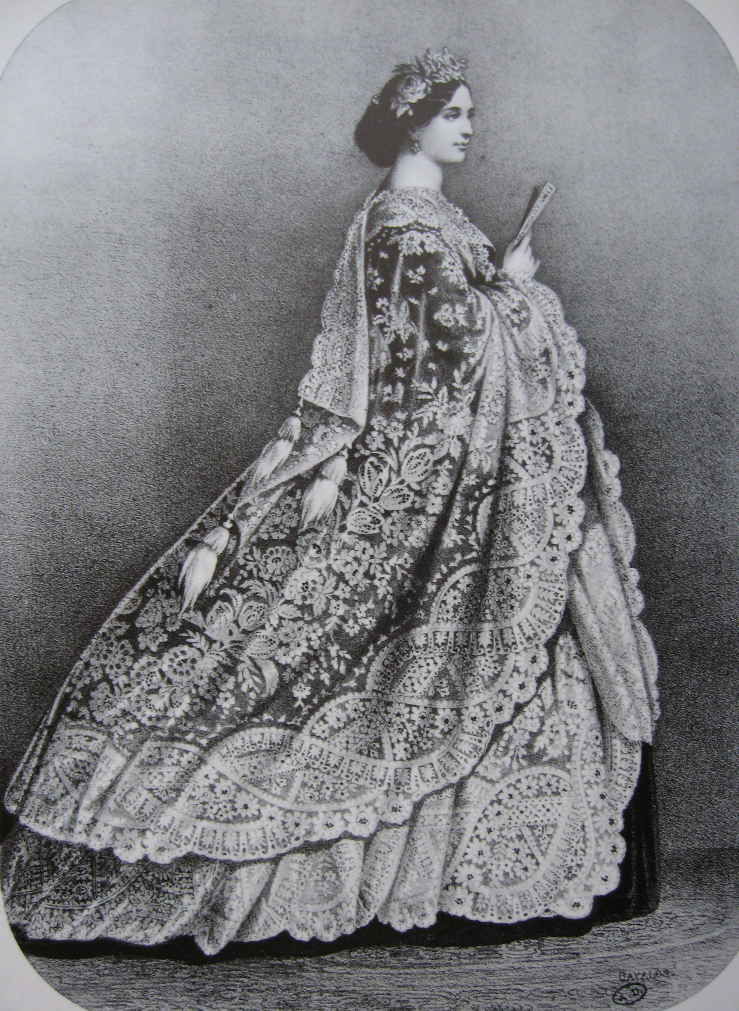 Fashion plate (The immense shawl,point de gaze or application d'Angleterre)